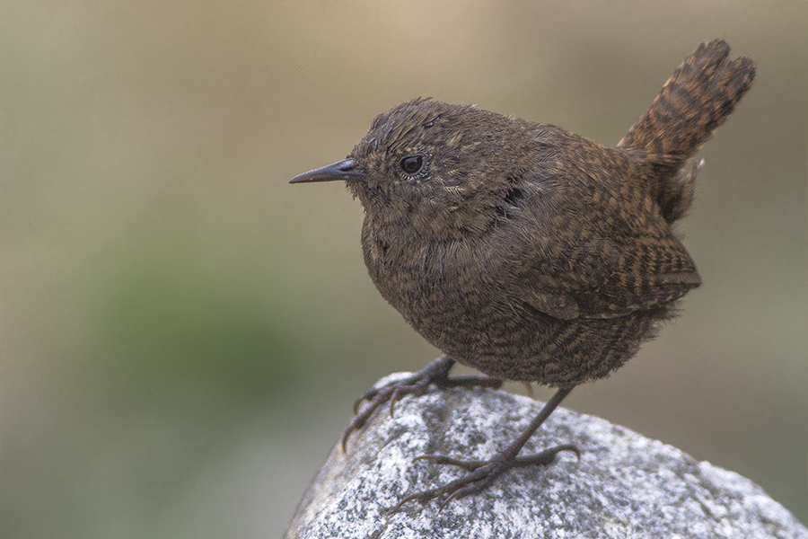 The species Eurasian Wren had been photographed in Pangolakha Wildlife Sanctuary, East Sikkim, India on 26.03.2016.